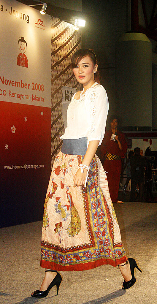 Batik skirt. Batik fashion show displays the application of Indonesian traditional batik fabrics into modern fashion. Indonesia-Japan Friendship Festival 2008.